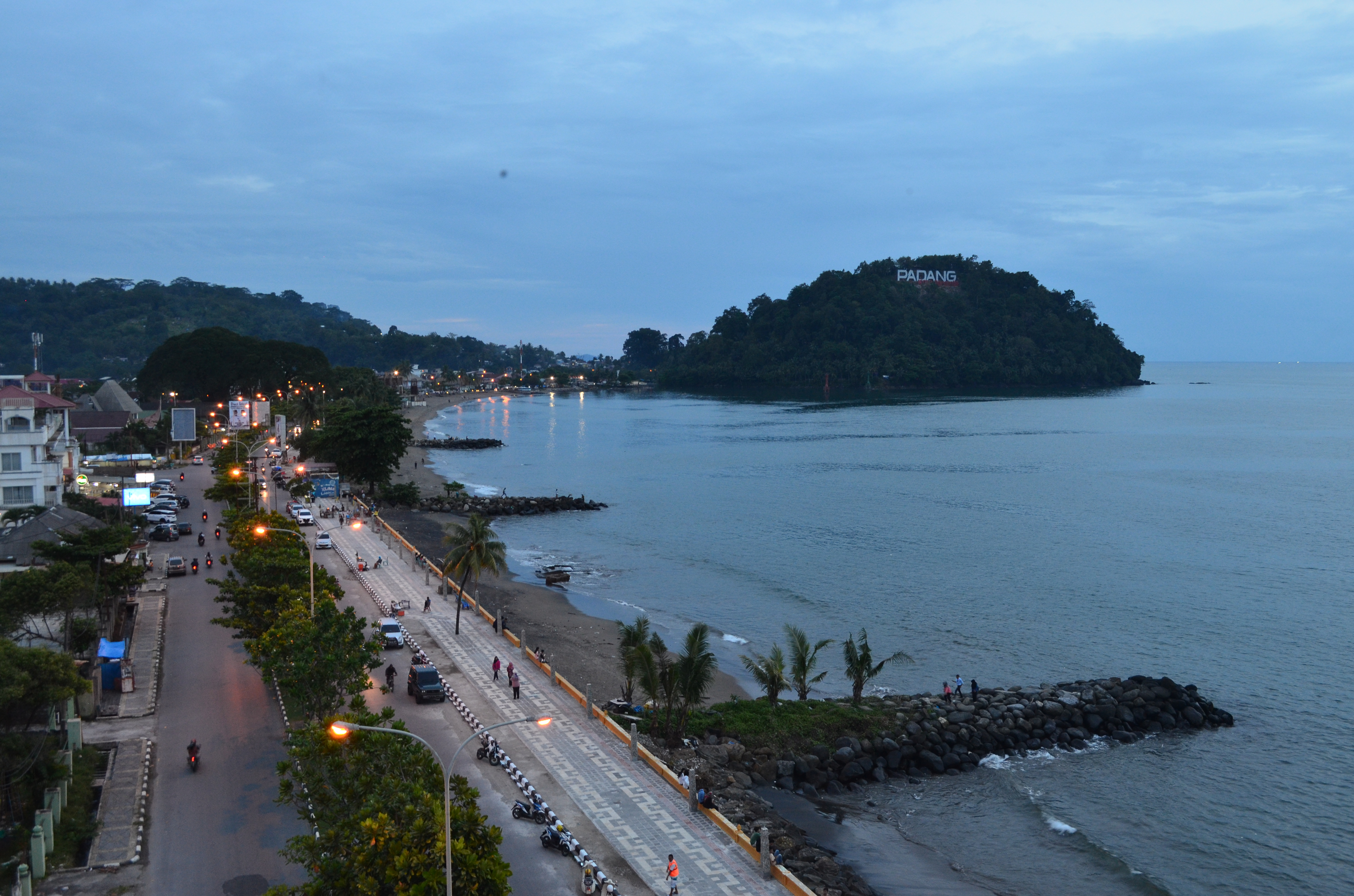 Penataan Pantai Padang Era Mahyeldi